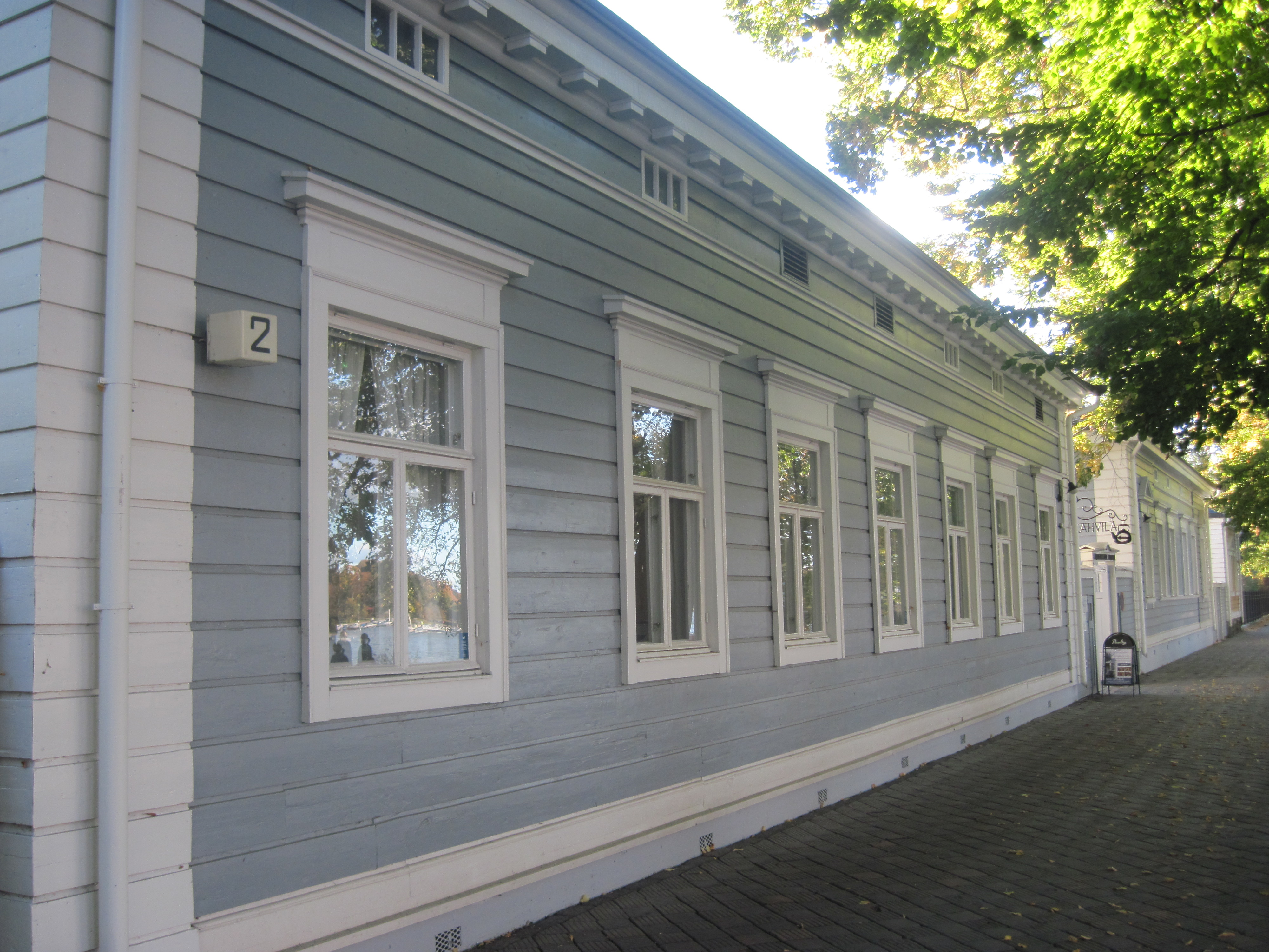 Wooden houses at Kaisaniemenranta 2 in Helsinki (moved there in 1991 from Uudenmaankatu)